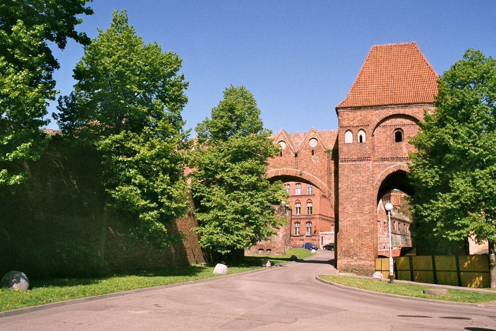 Toruń (Poland), Teutonic Knights' castle, latrine tower